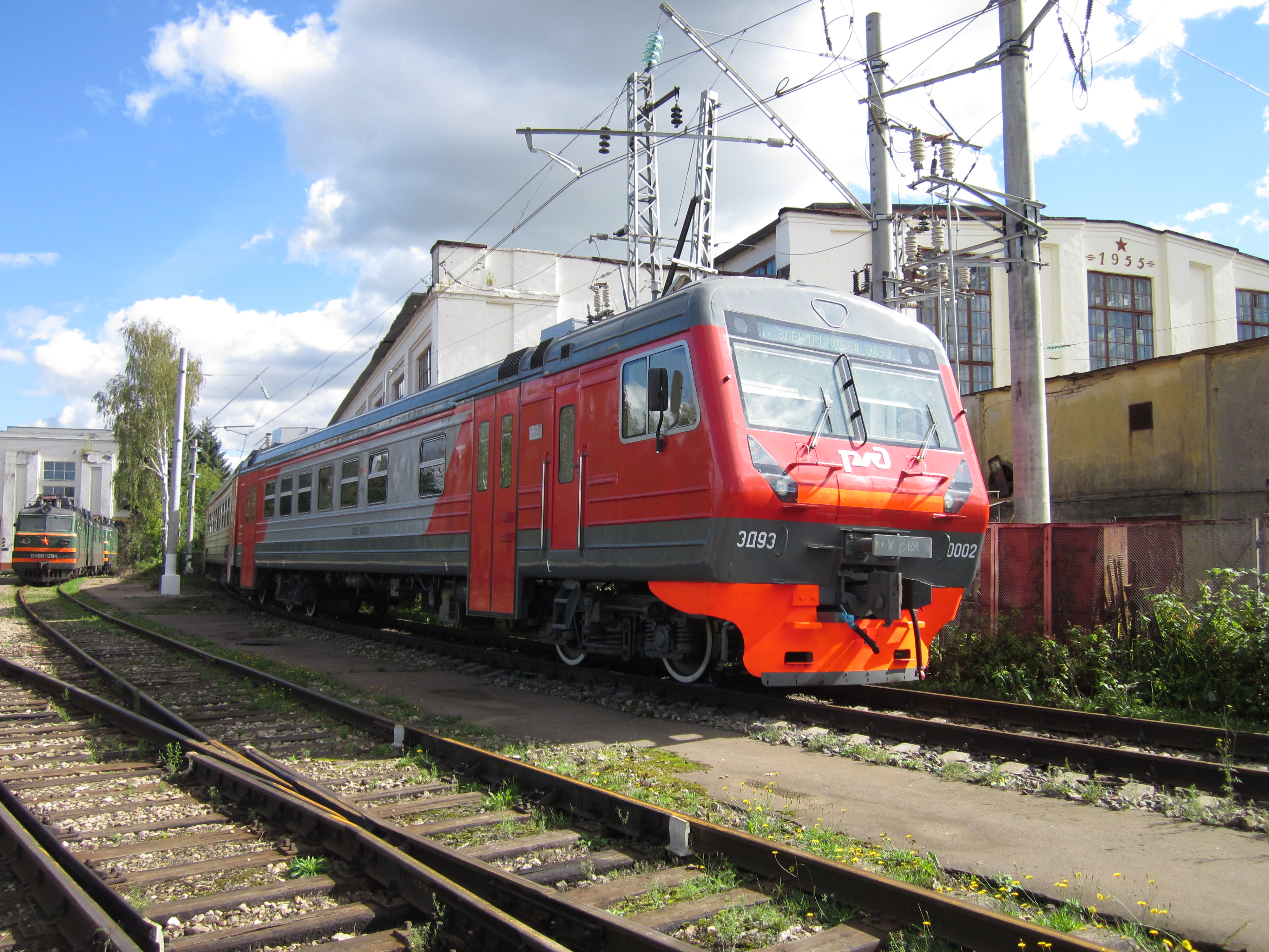 Electric multiple unit ED9E-0002 at train test ring in Scherbinka.